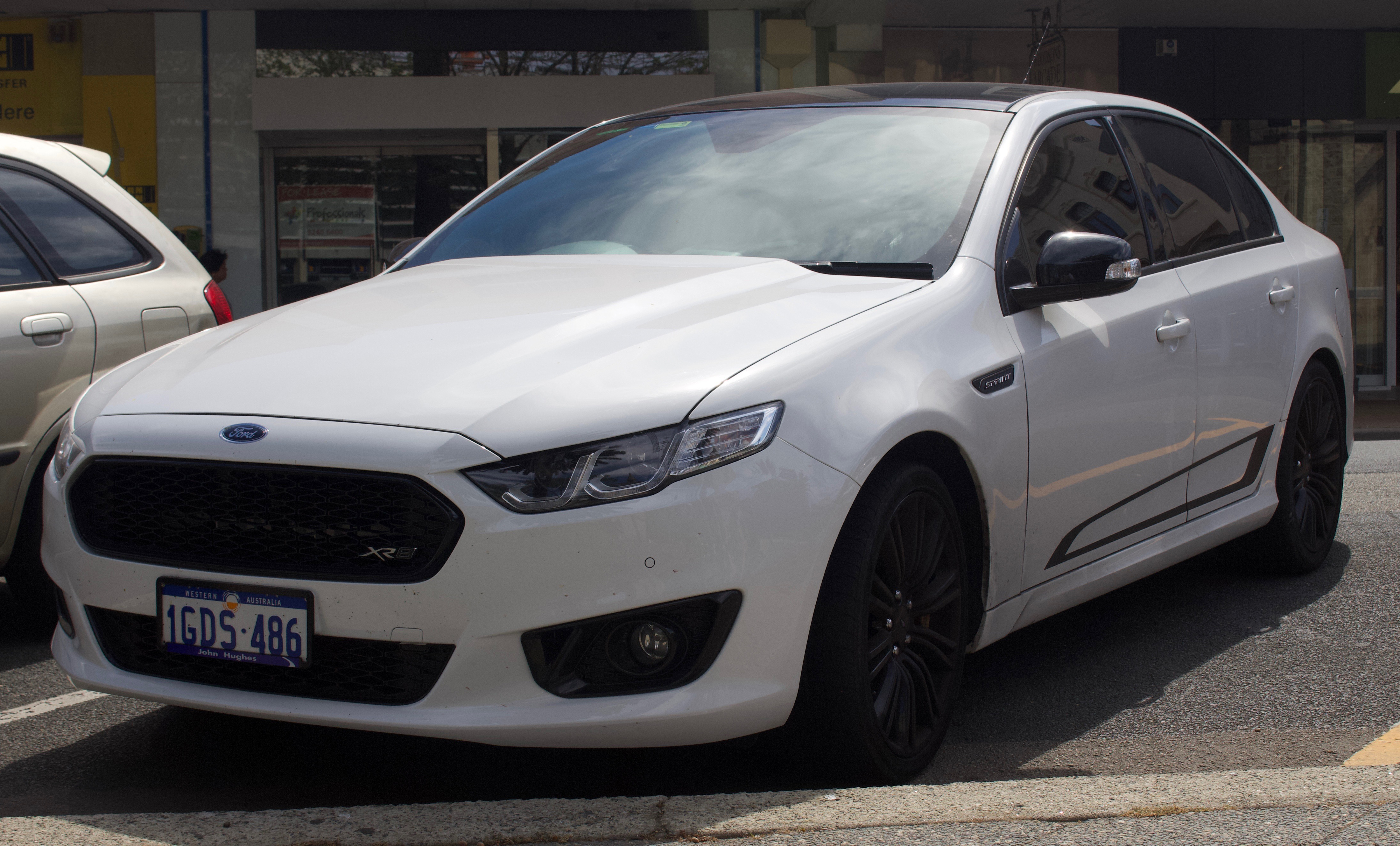 2016 Ford Falcon (FG X) XR8 Sprint sedan. Photographed in Fremantle, Western Australia, Australia.